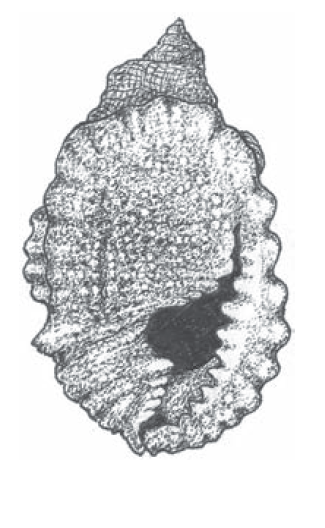 Distorsio anus (Linnaeus, 1758). Length 65 mm.